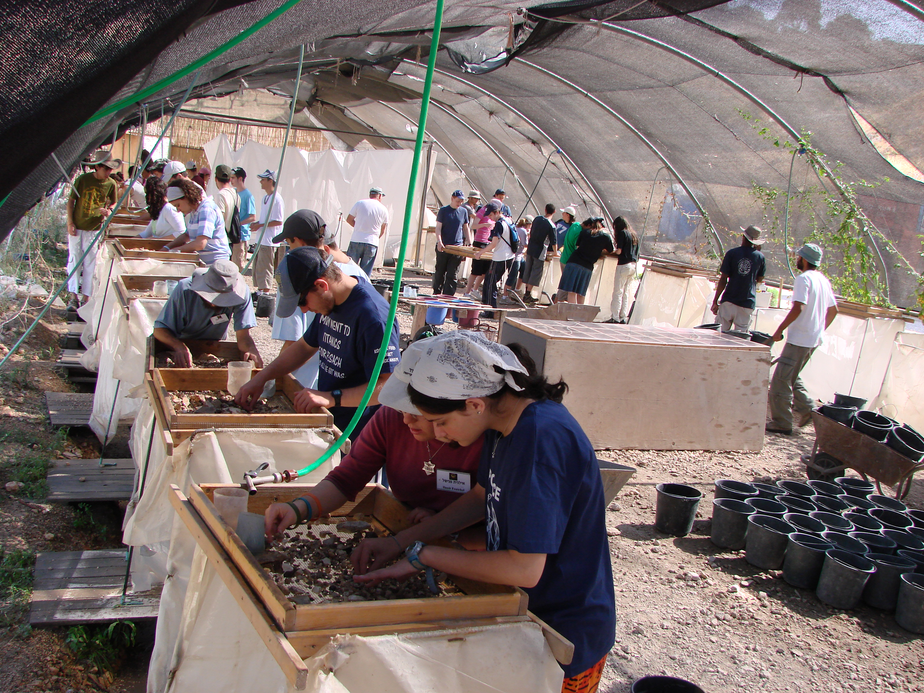 Archaeological Sifting Earth from the Temple Mount, Archeological sites of Israel